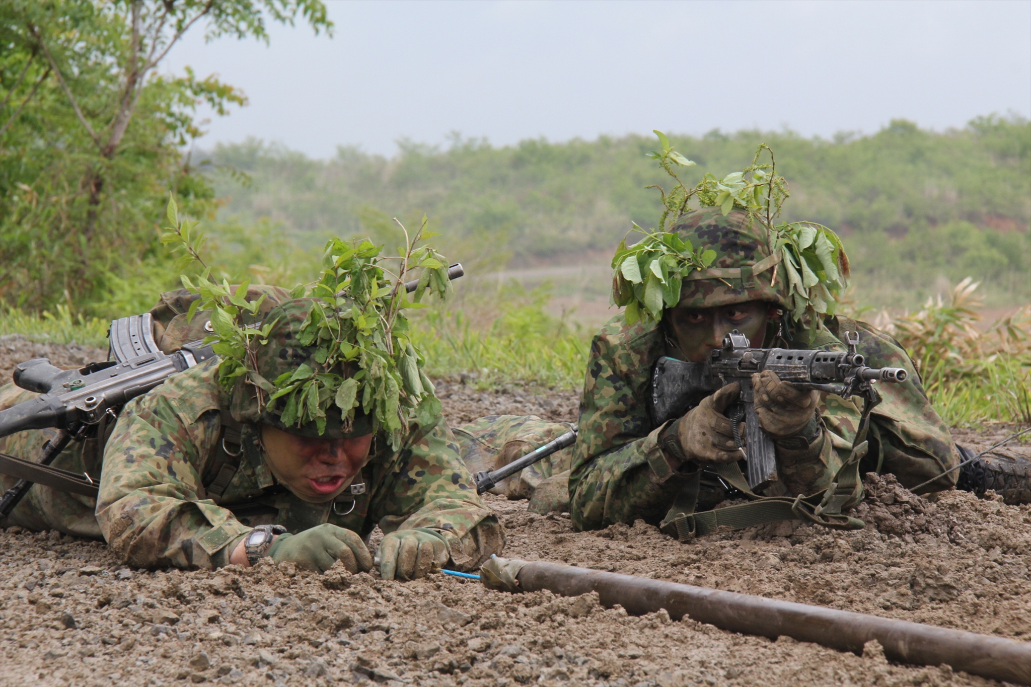 Title 6E-KD-1 (障害処理「必通の信念」)_R.JPG Album 教育訓練等 障害処理